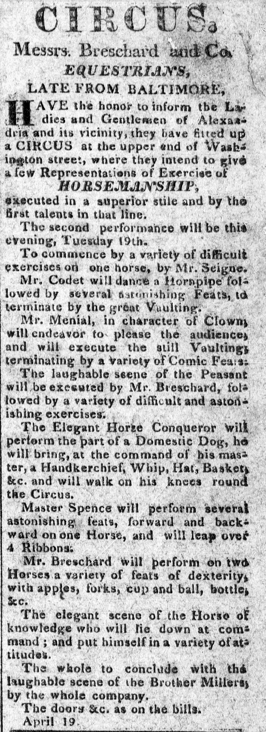 1814-04-19_Alexandria_Gazette advertisement for the Circus of Pepin and Breschard